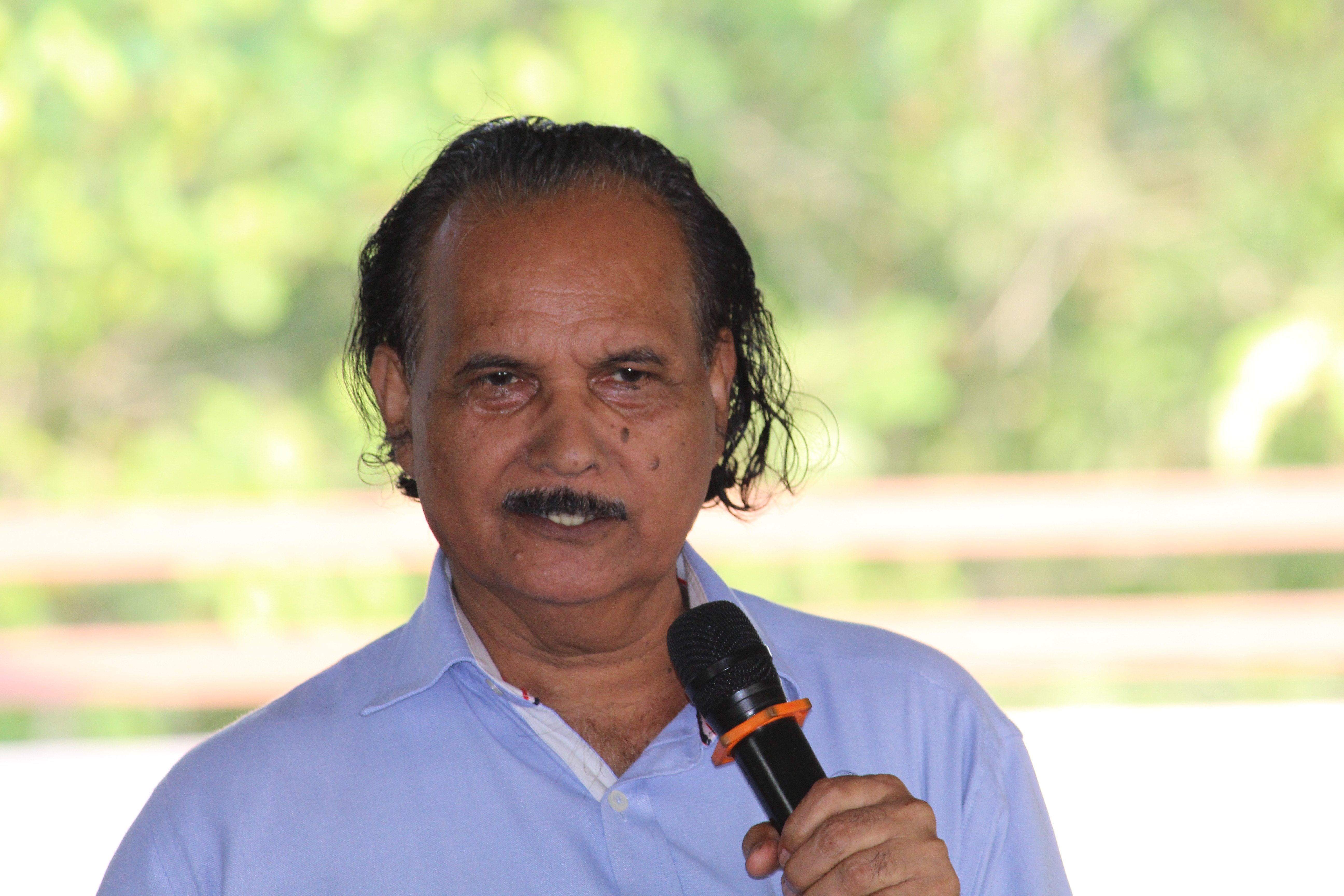 K. Pappootty - Malayalam Science Writer and Kerala Sastra Sahitya Parishid Activist